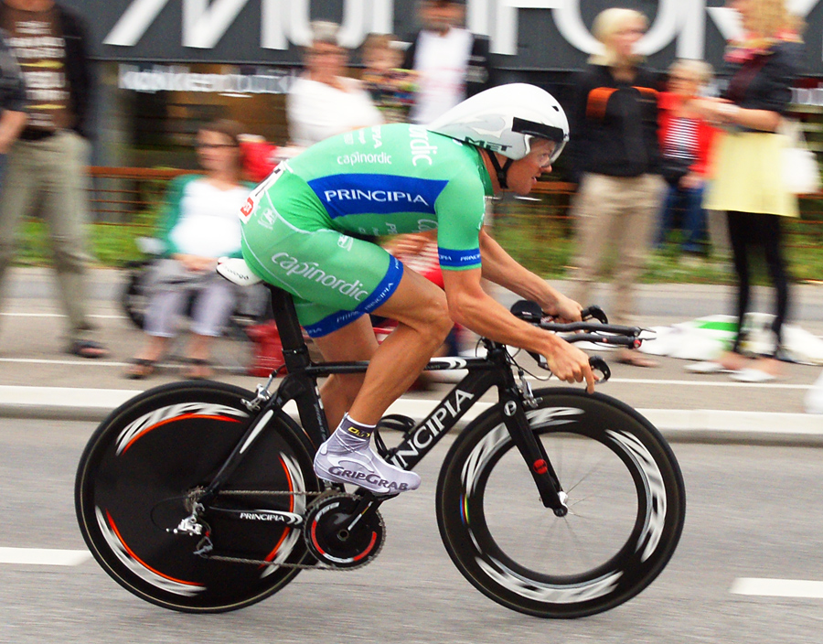 Jens-Erik Madsen (DEN) during Tour of Denmark/Post Danmark Rundt 2009, stage 5 (timetrial 15,5 km)